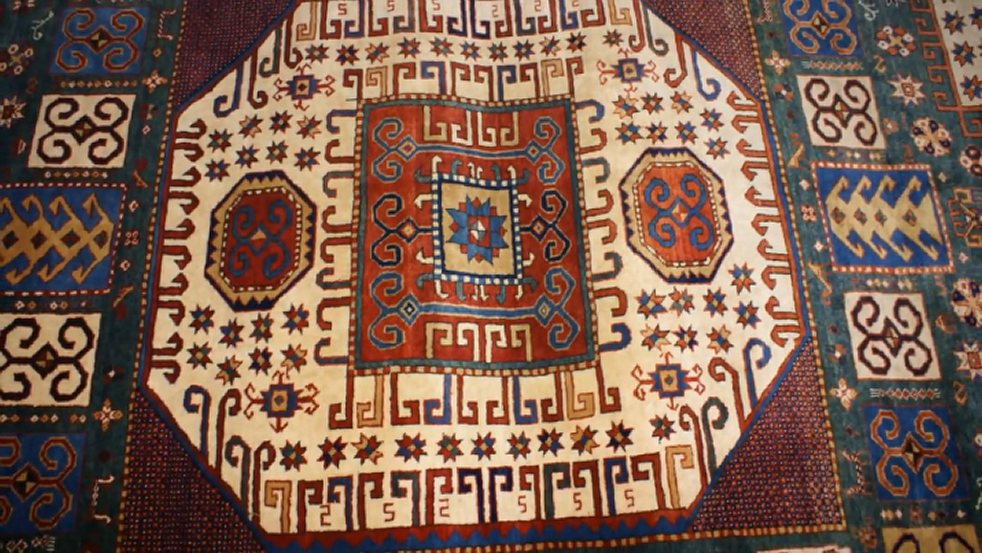 Azerbaijani carpet (Shirvan subgroup) from National Carpet Museum of Azerbaijan.